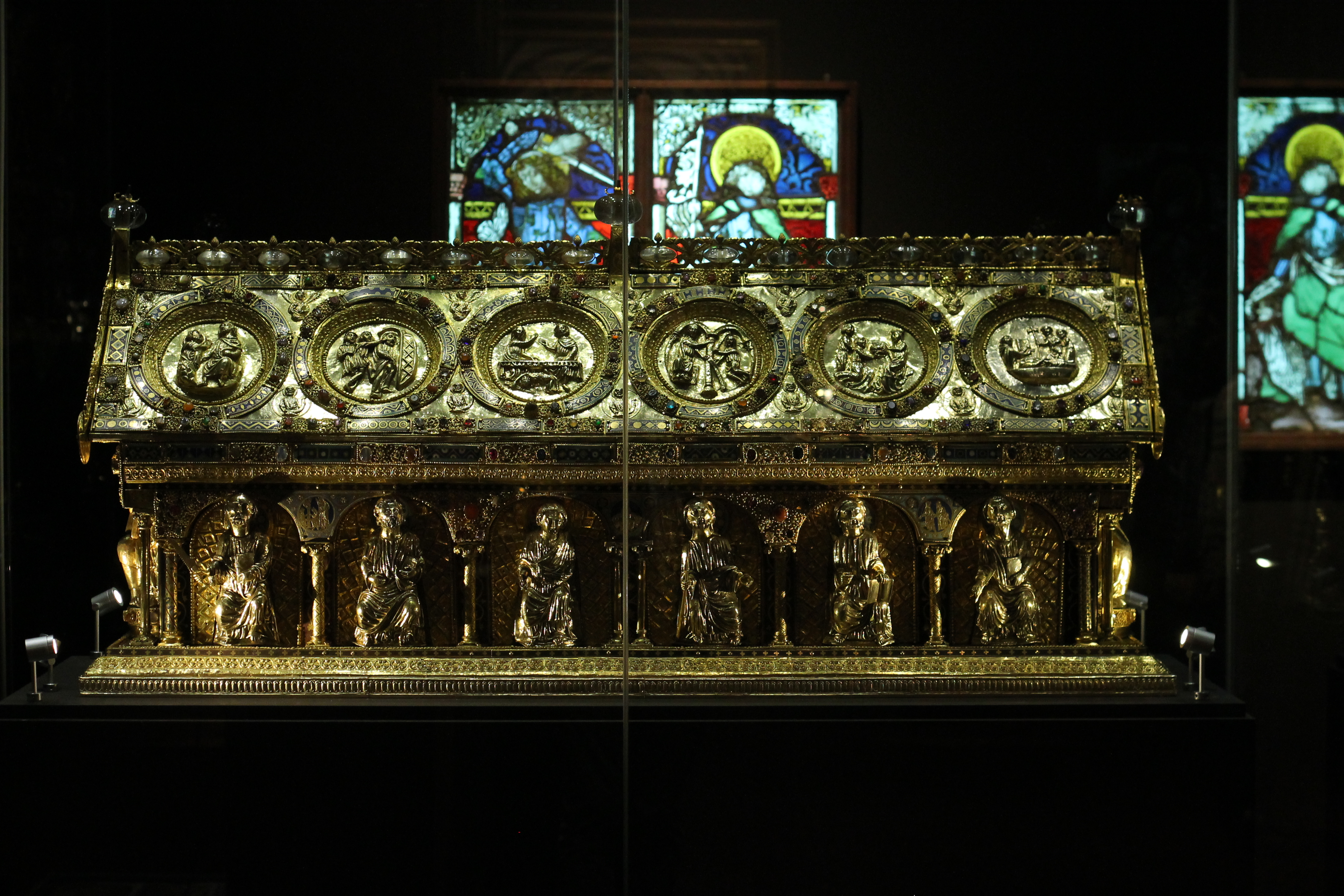 Reliquary of Saint Maurus, view from the right side, Prague Castle Riding School (exhibition)